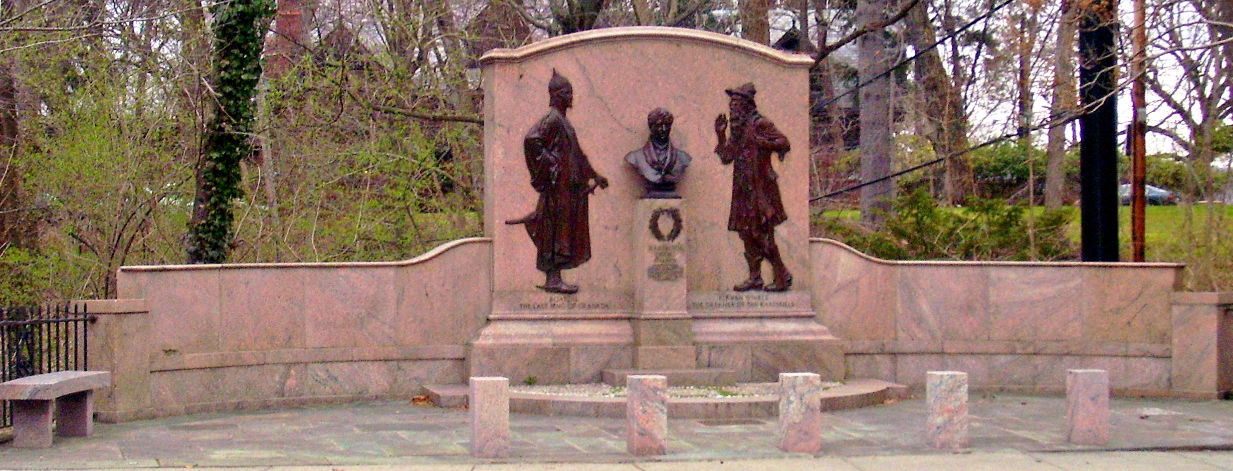 Washington Irving Memorial along US 9 near his Sunnyside estate in Irvington, NY, USA